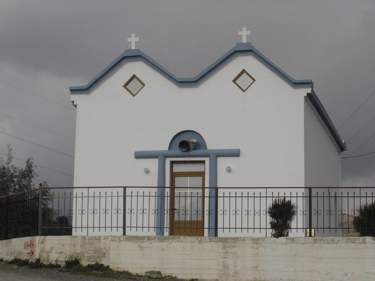 Church of Profitis Ilias and Tris Ierarches at Messi, Viannos.